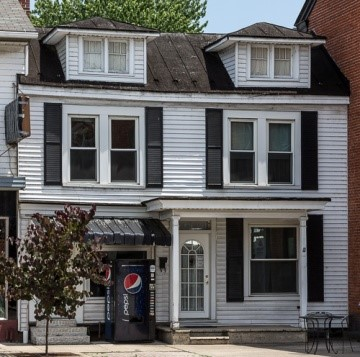 Historical home located at 15 South Second Street Newport PA. Photo was taken in 2015